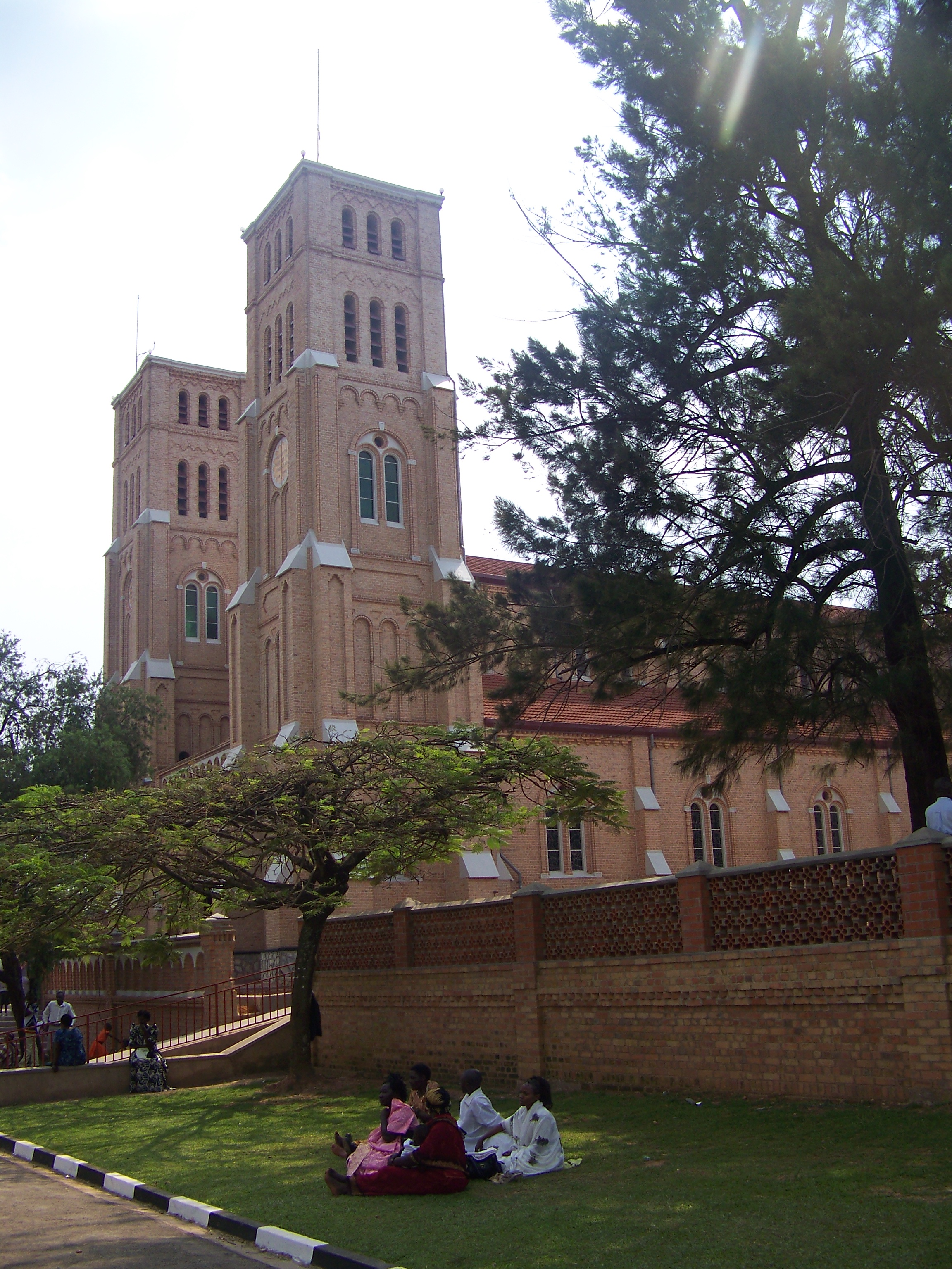 Rubaga Cathedral, Kampala, Uganda